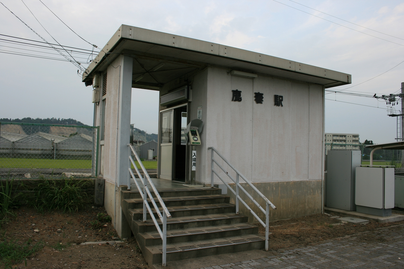 KazumaStation, Higashimatsushima, Miyagi, Japan